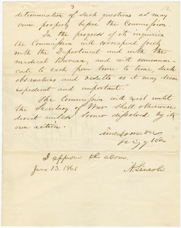 Signatures of Cameron and Lincoln at the bottom of the act creating the United States Sanitary Commission